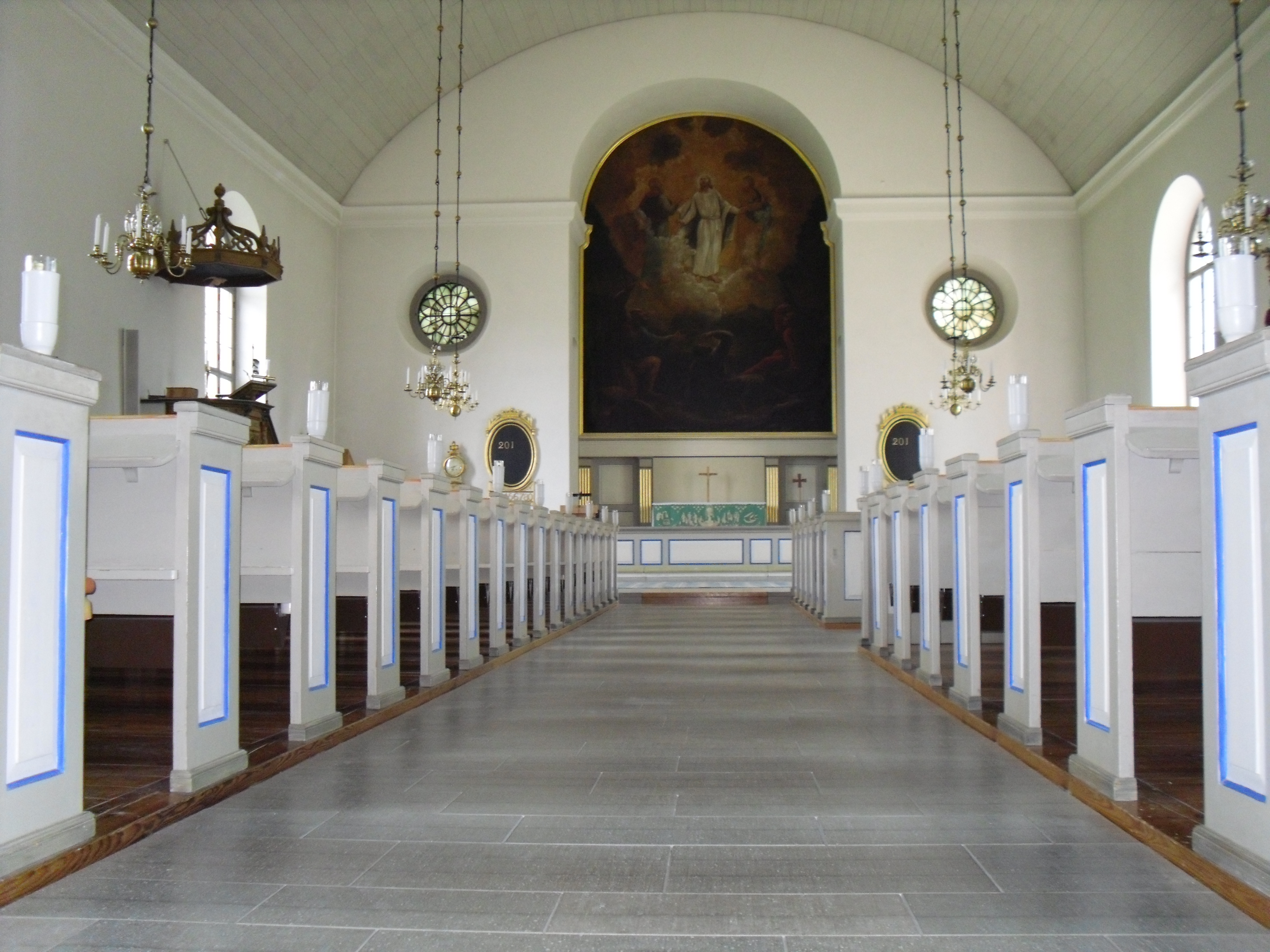 Ljung Church, Östergötland, Sweden. Interior.